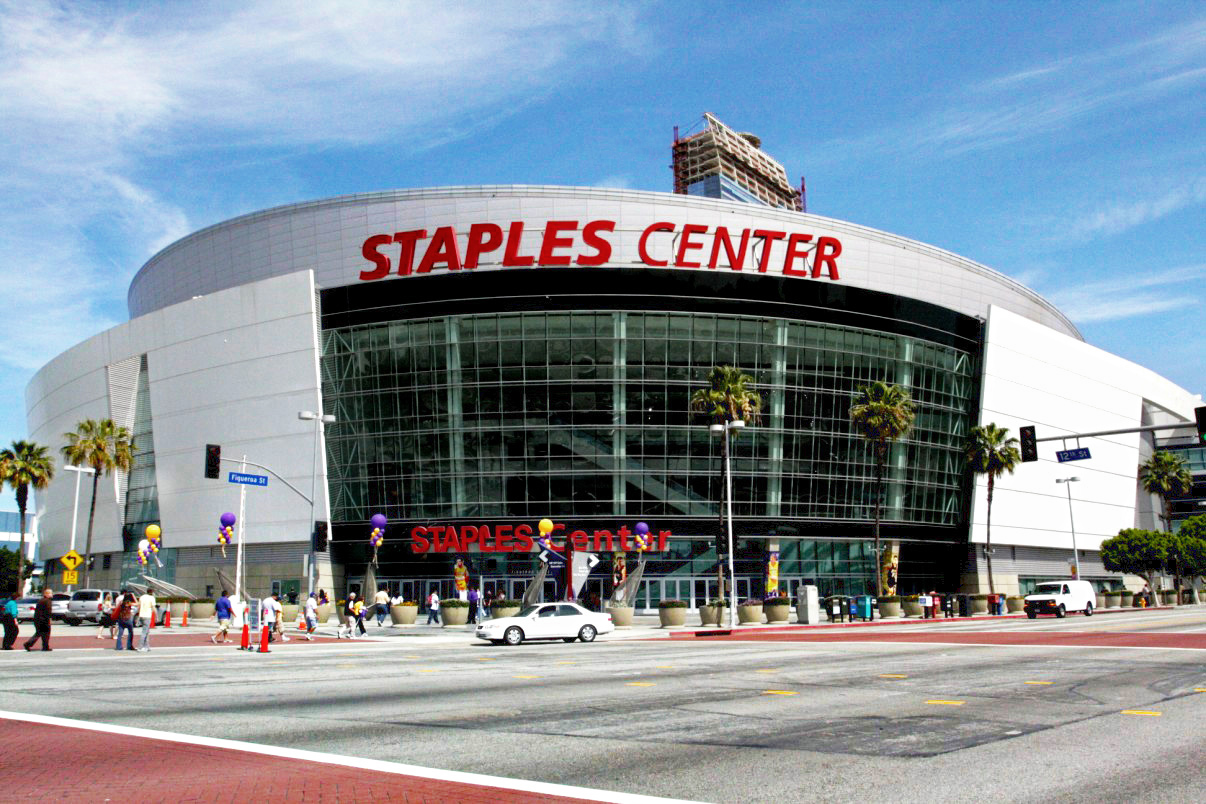 View of Staples Center